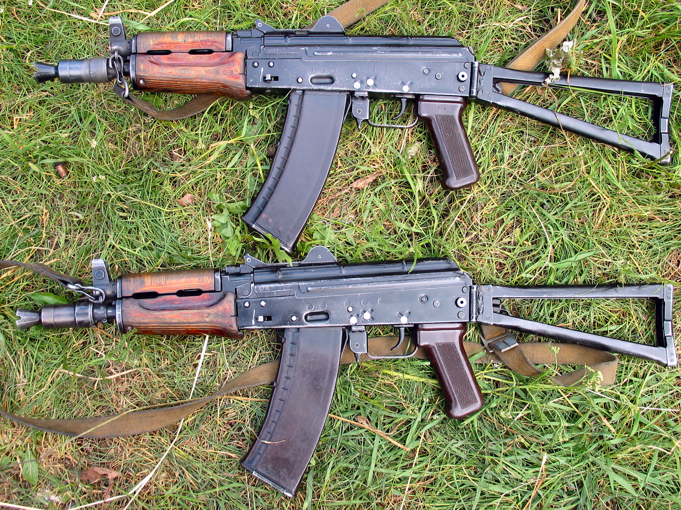 Two AKS-74U carbines.